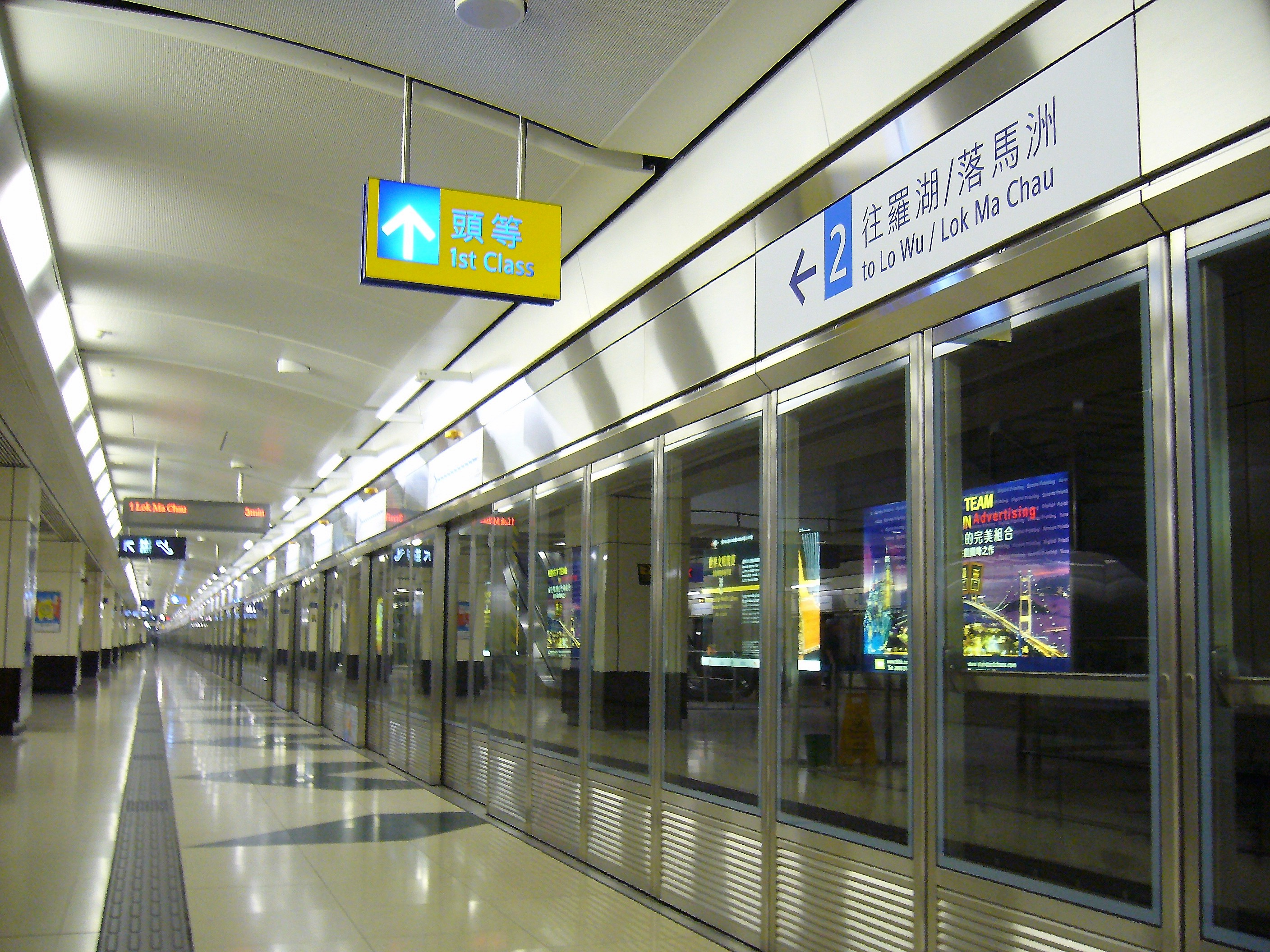 East Tsim Sha Tsui Station Platform before rail merger